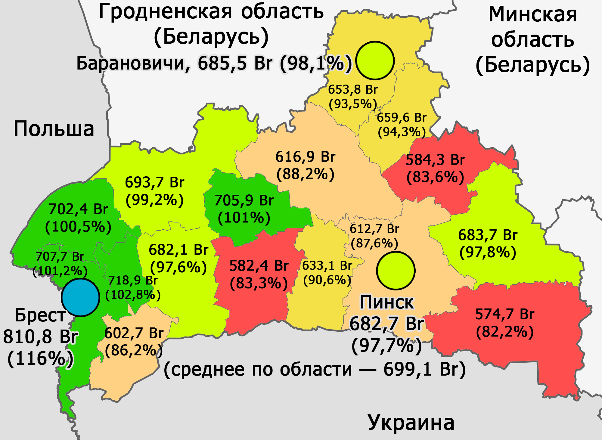 Average salaries in Bresckaja voblasć, Belarus (2017)